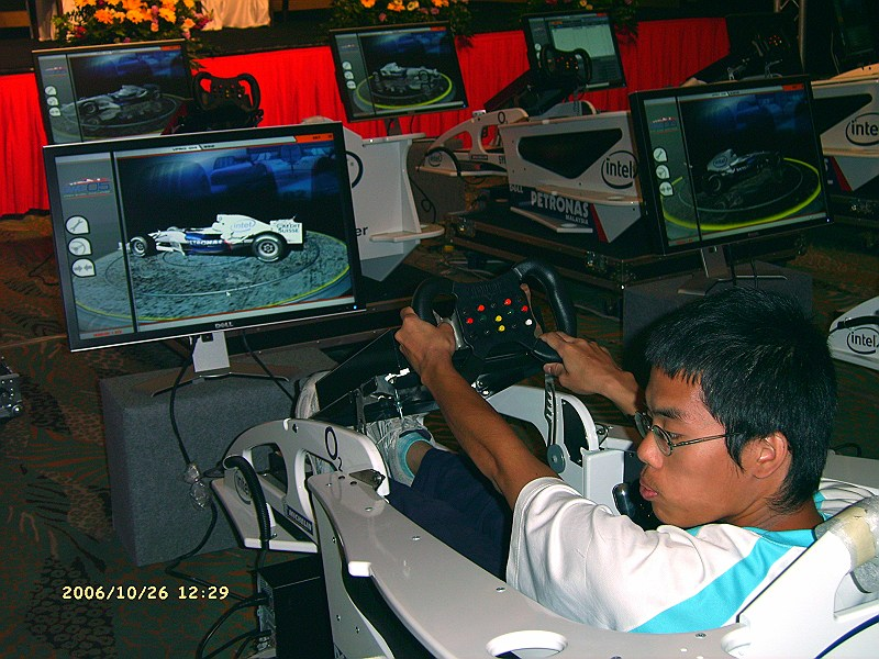 F1 Experience activity at Intel vPro Solution Seminar. The F1 Experimental Model Car seated a man is the Author.